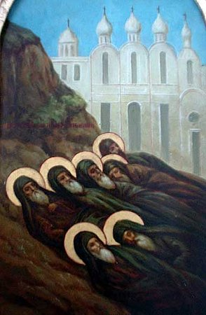 Holy fathers slain at Sinai and Raithu, are saints venerated together on January 14 by the Eastern Orthodox Church. They comprise two different groups of saints who were killed at different times and at different locations. Their names are given as Isaiah, Sabbas, Moses, Jeremiah, Paul, Adam, Sergius, Domnus, Proclus, Hypatius, Isaac, Macarius, Mark, Benjamin, Eusebius, and Elias. A group of these martyrs were killed at Sinai during the reign of Diocletian, about the year 296.